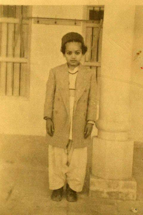 Pir Syed Naseer Uddin Naseer in Childhood